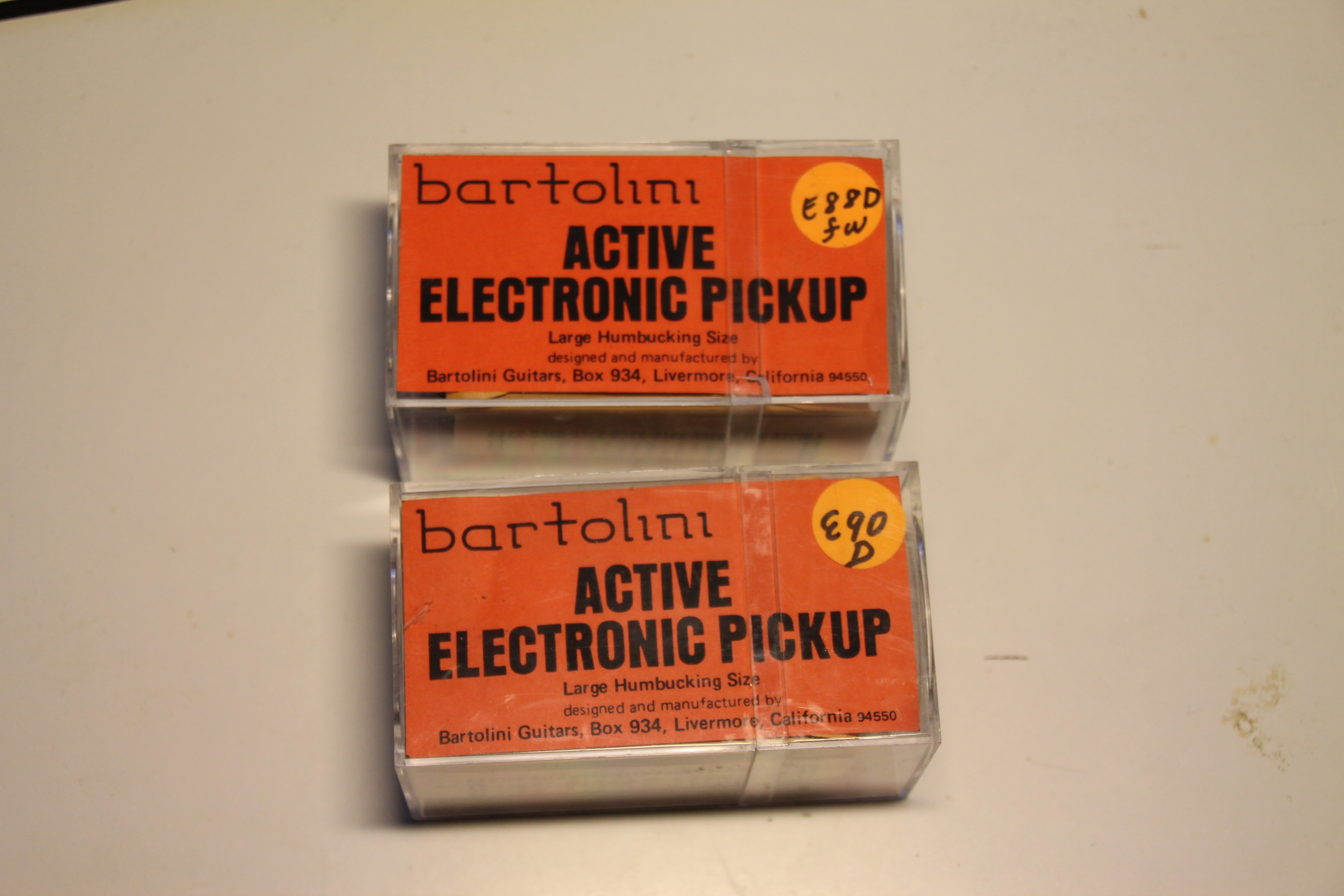 Bartolini-pickups for electric guitar, in an original packages.